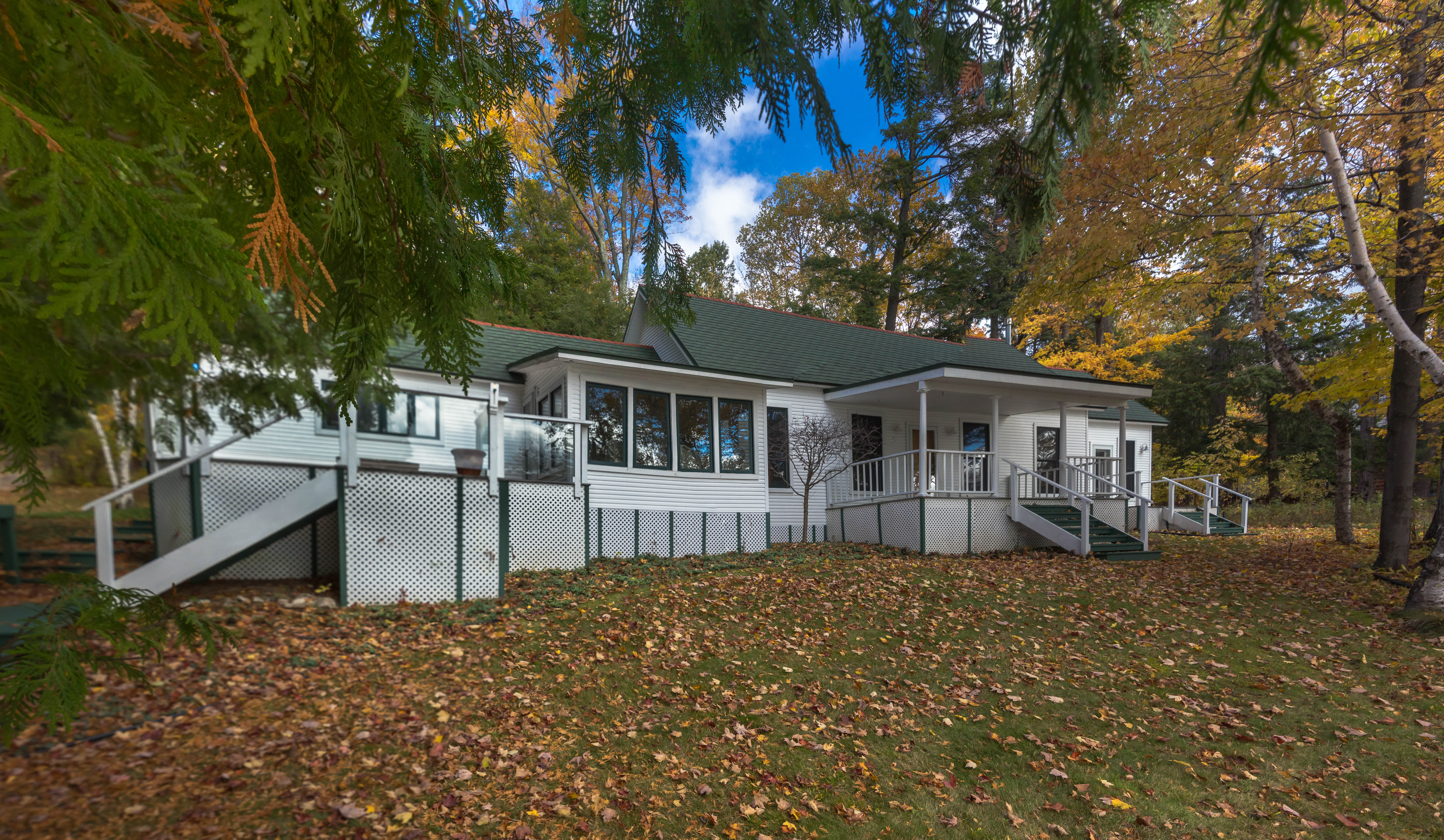 Windemere-Lakeside1